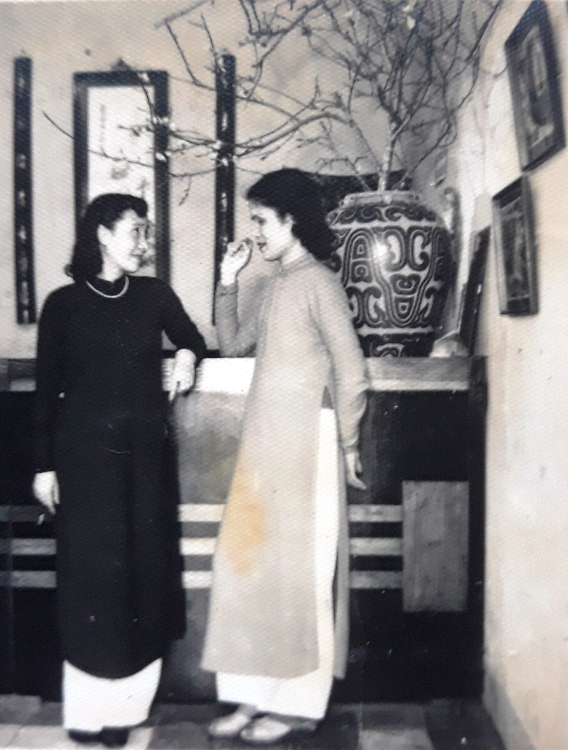 Áo dài 1950